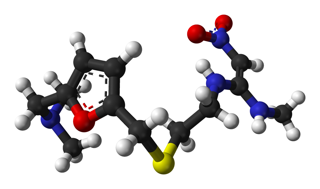 Ball-and-stick model of the ranitidine molecule, C13H22N4O3S . Single crystal X-ray diffraction data from A. Hempel, N. Camerman, D. Mastropaolo and A. Camerman (2000). "Ranitidine hydrochloride, a polymorphic crystal form". Acta. Cryst. C56 (8): 1048-1049. Image generated in Accelrys DS Visualizer.